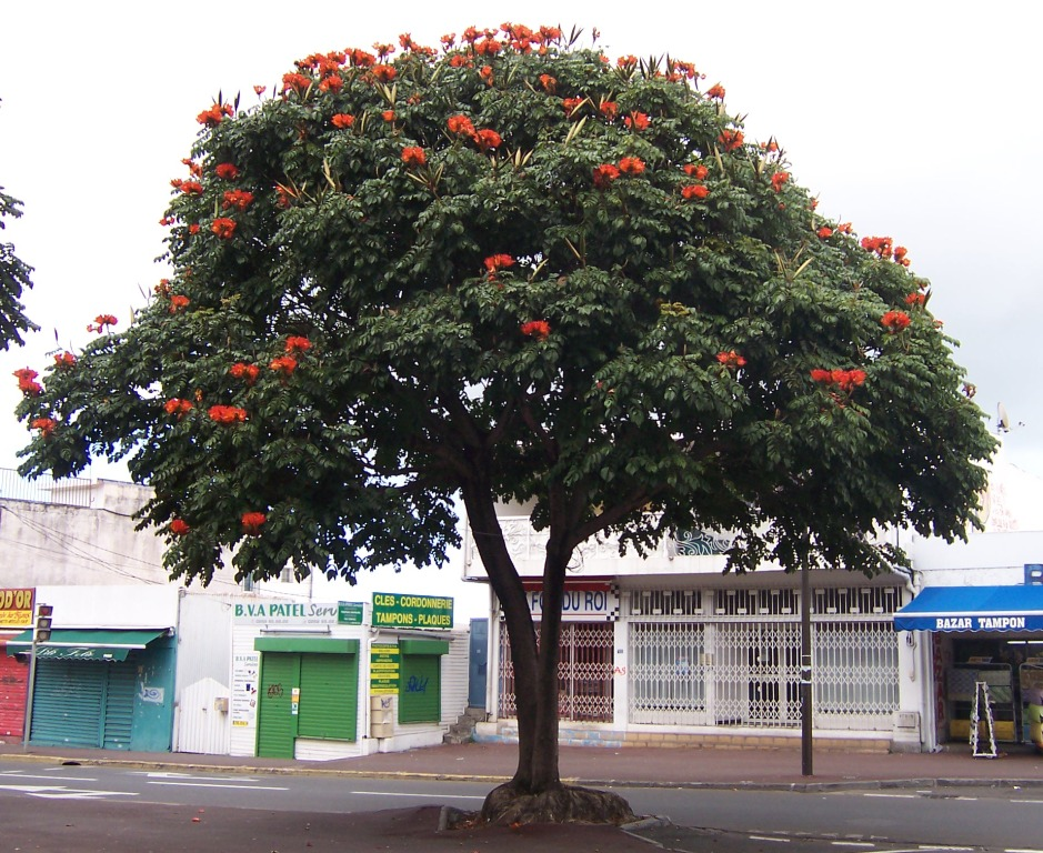 African tulip tree(Spathodea campanulata) - tree, Réunion island